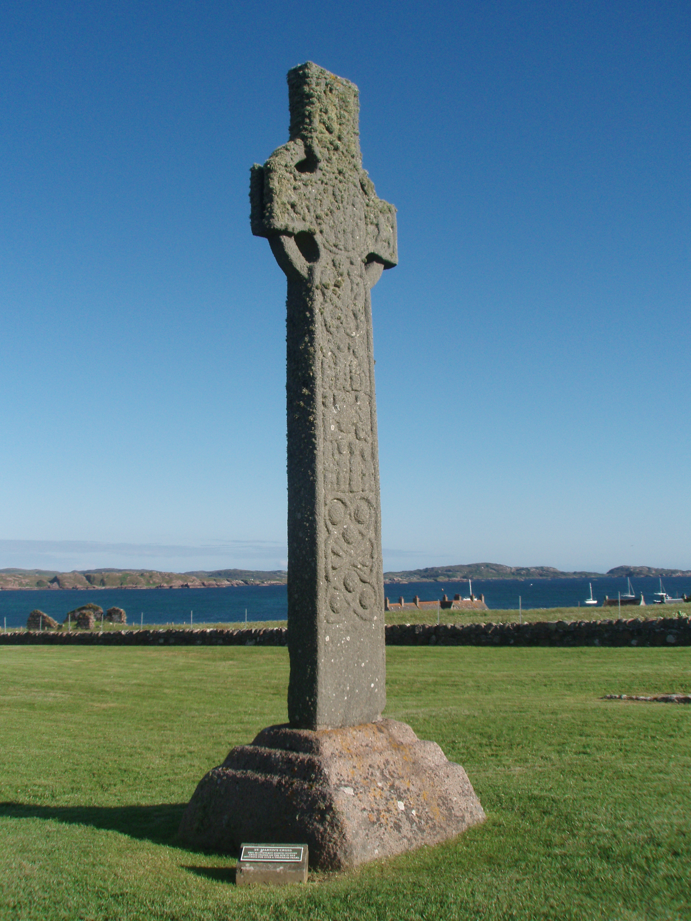 St Martin's cross, Iona Abbey, Isle of Iona, Scotland, in July 2011.